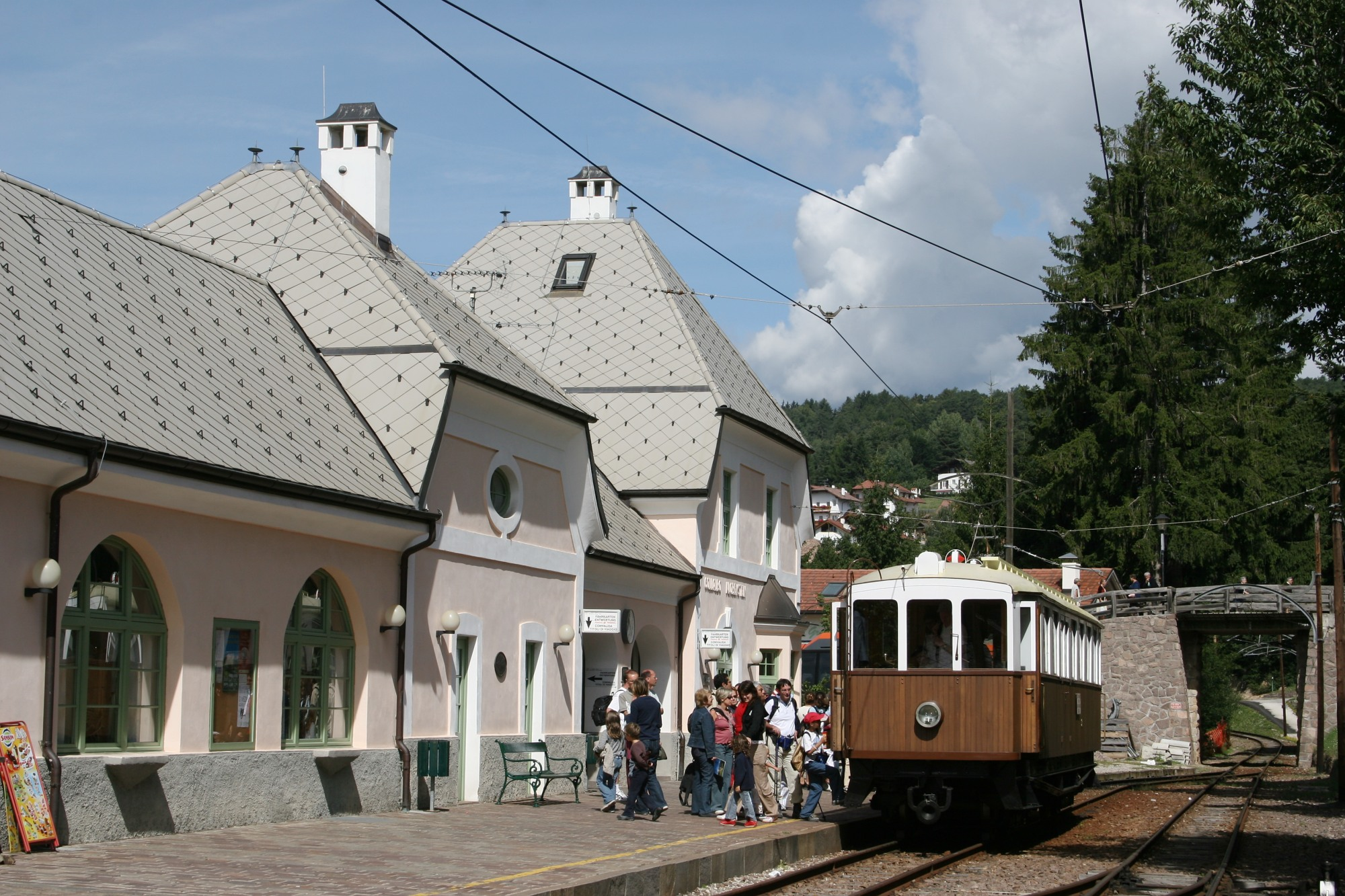 Rittnerbahn railcar in Klobenstein station.